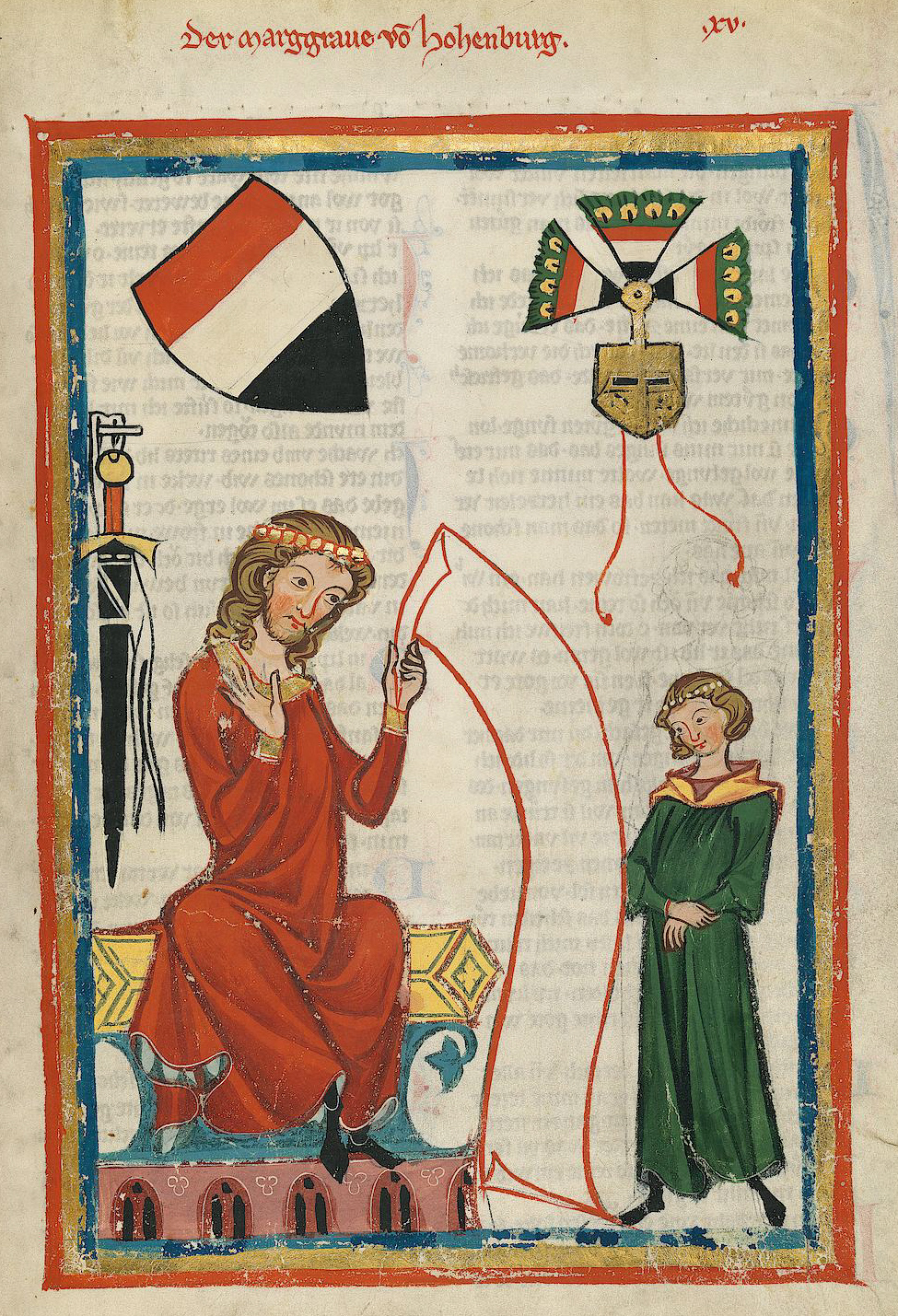 The Margrave of Hohenburg. Codex Manesse, fol. 29r